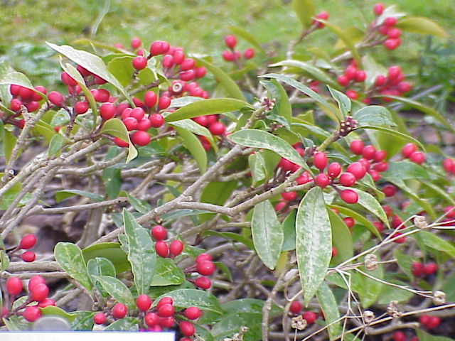 Species: Skimmia reevesiana Family: Rutaceae Image No. 1